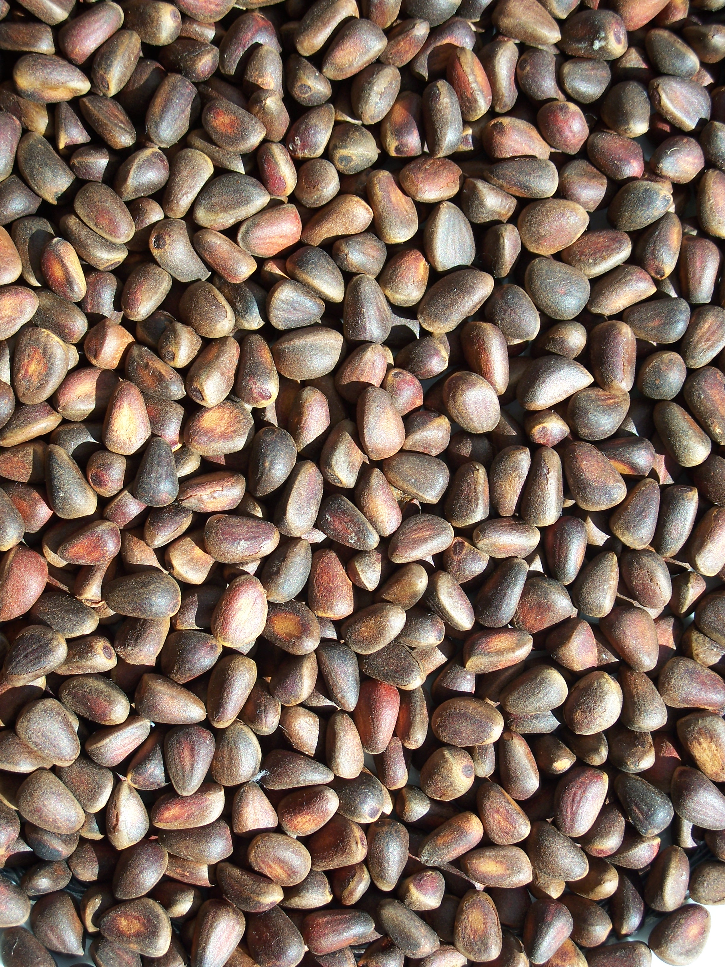 Siberian pine nuts